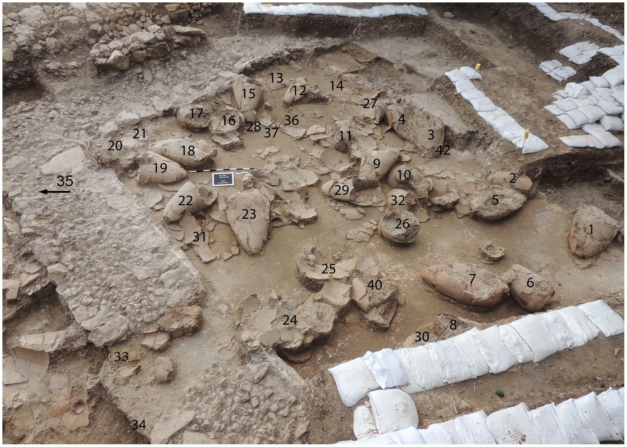 A view to the southeast of the 40 or so wine storage vessels in-situ in the D-West wine cellar at Tel Kabri. The photo was taken during the course of the 2013 excavation by The Tel Kabri Archaeological Project. The expedition has numbered the vessels in the photo.